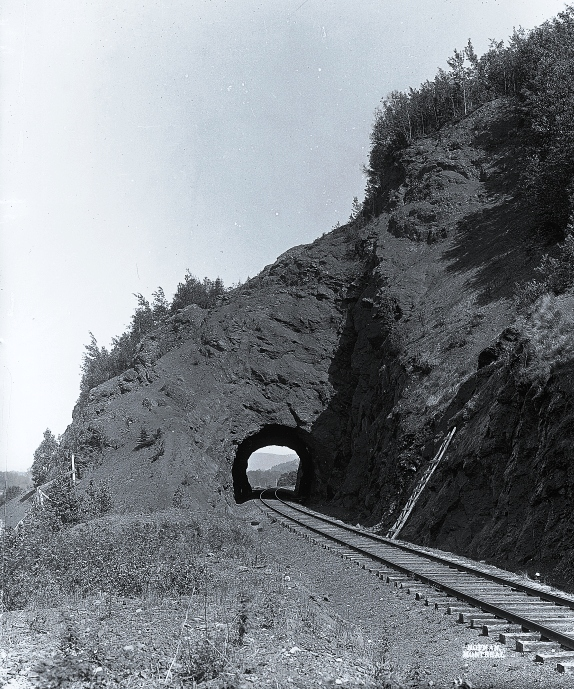 Photograph, Morrisey Rock near Matapedia River/Restigouche River, New Brunswick, Canada, 1898 (?), Wm. Notman & Son, Silver salts on glass - Gelatin dry plate process - 25 x 20 cm